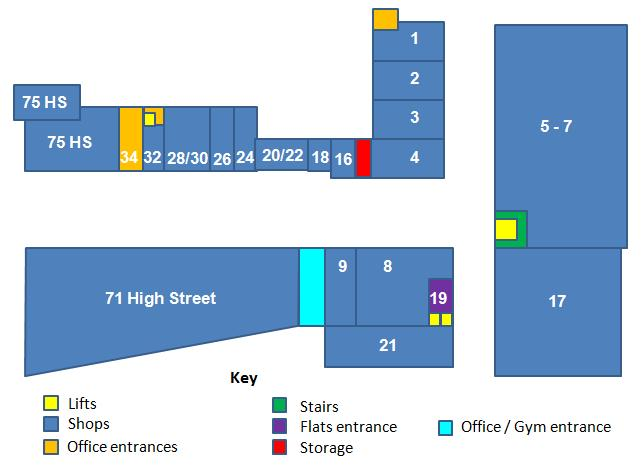 Floor plans of The Mall for the redevelopment